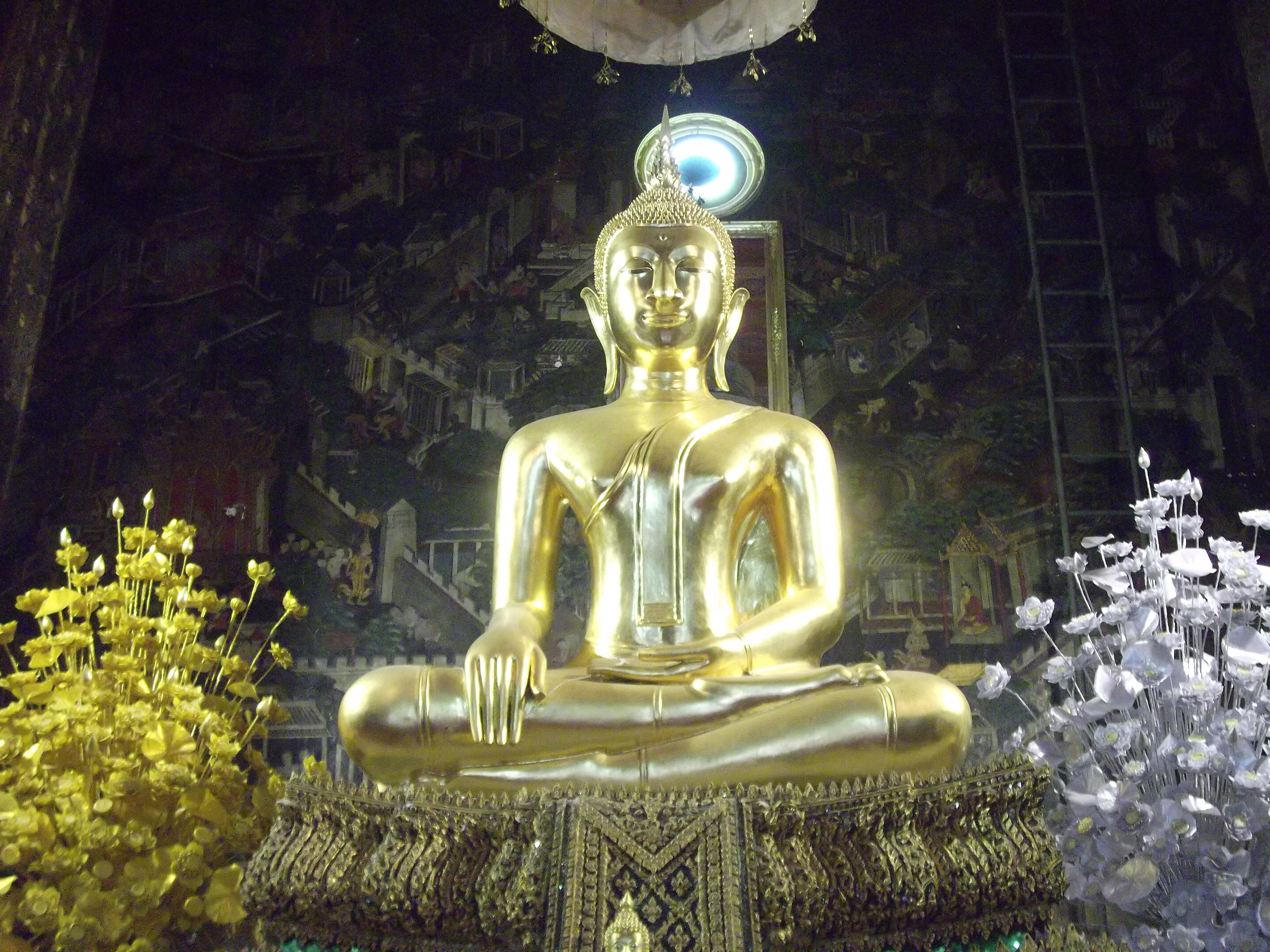 พระประธานในพระอุโบสถ Principal buddha